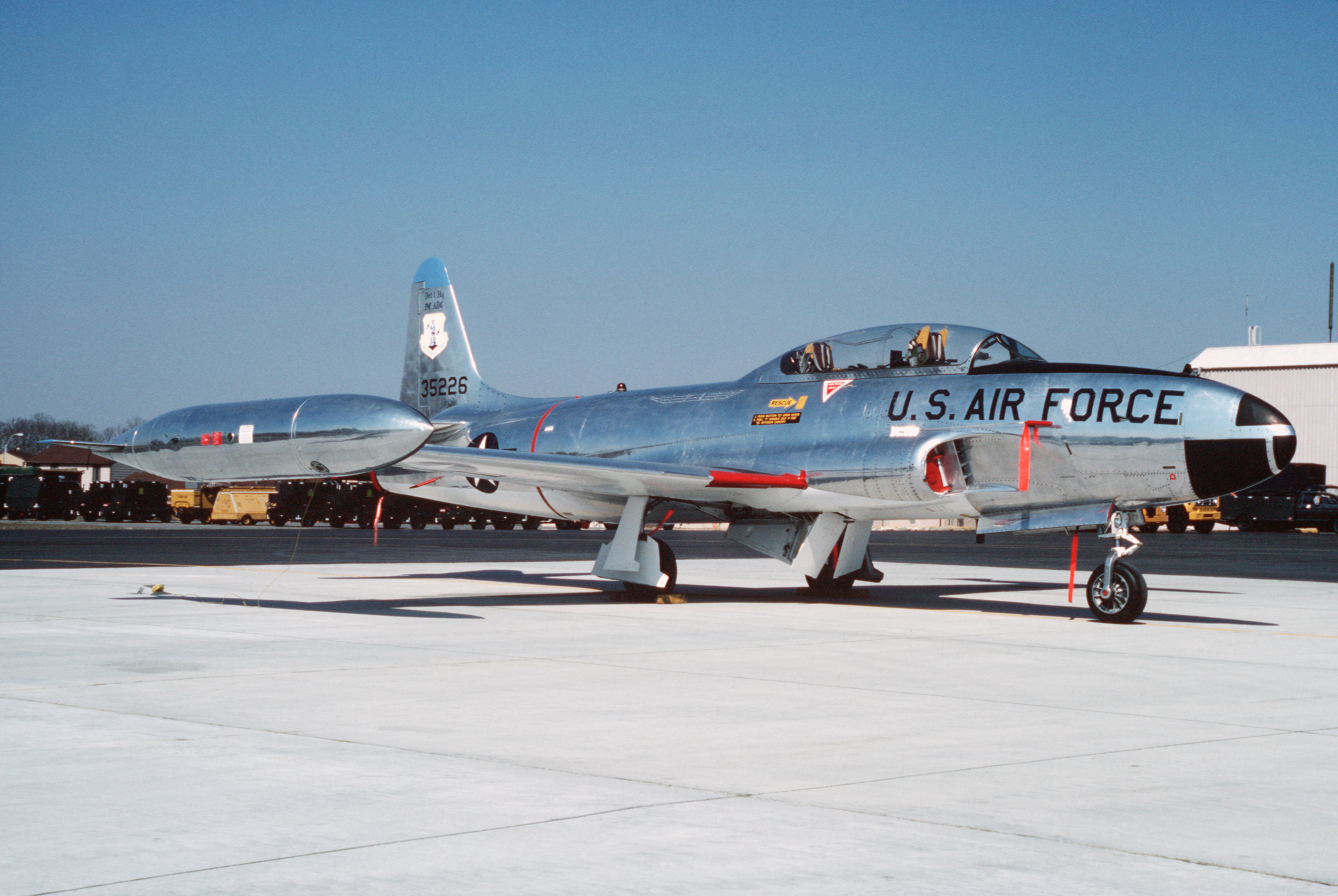 A U.S. Air Force Lockheed T-33A T-Bird trainer of the Washington D.C. Air National Guard at Wright-Patterson Air Force Base, Ohio, on 14 March 1987. The Lockheed T-33A-5-LO, serial no. 53-5226N, was accepted by the USAF on 16 September 1954, and delivered to the Washington D.C. Air National Guard at Andrews Air Force Base where it served until its transfer to the National Air and Space Museum, Udvar-Hazy Center, on 30 October 1987.